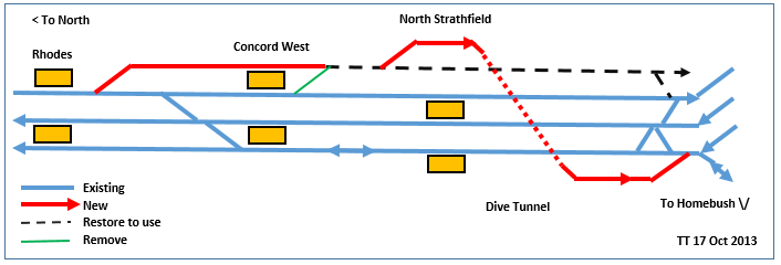 Track diagram showing existing, new, restored to use and removed tracks, with dive tunnel, at this junction.